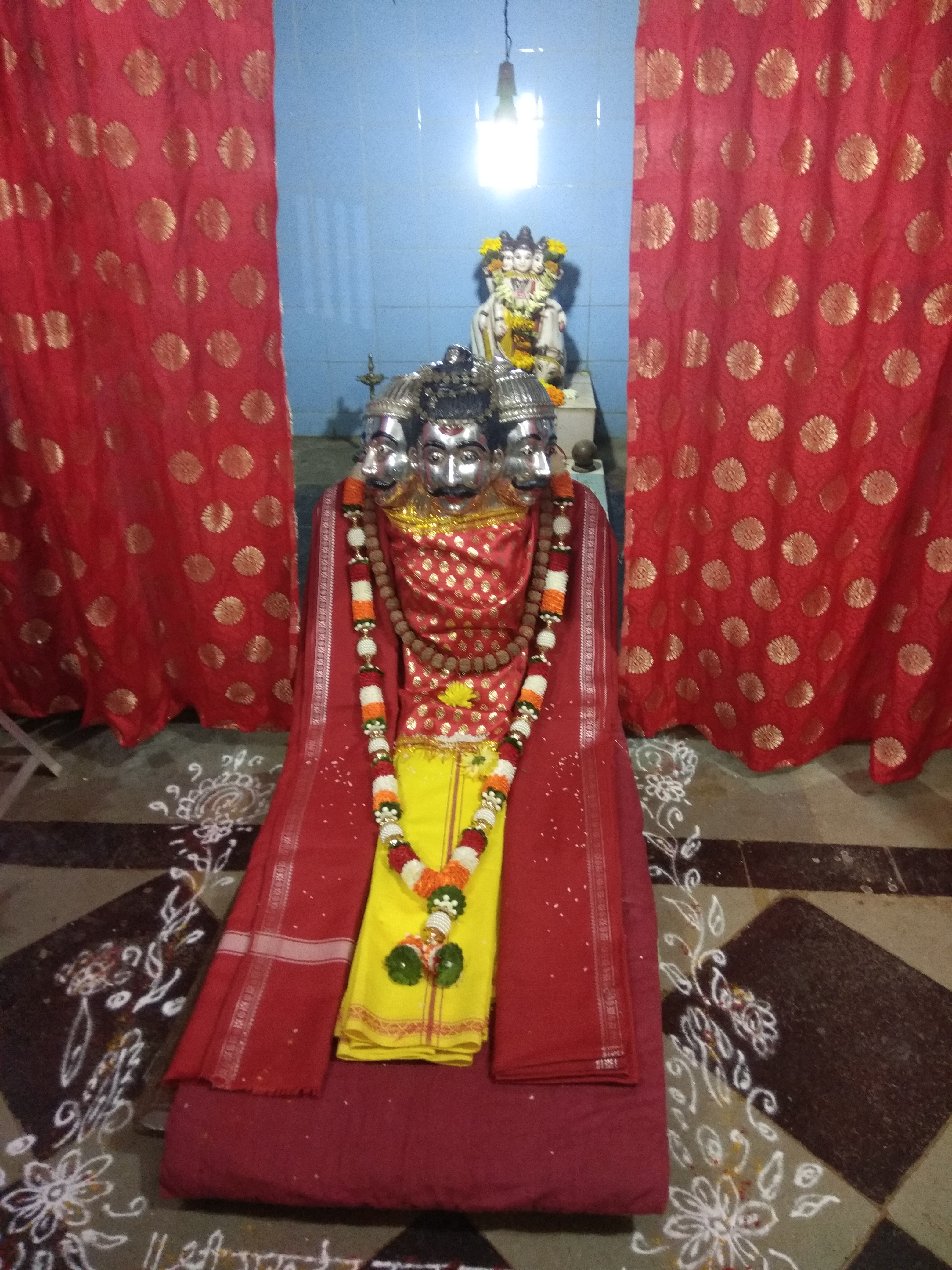 Datta Jayanti Worship